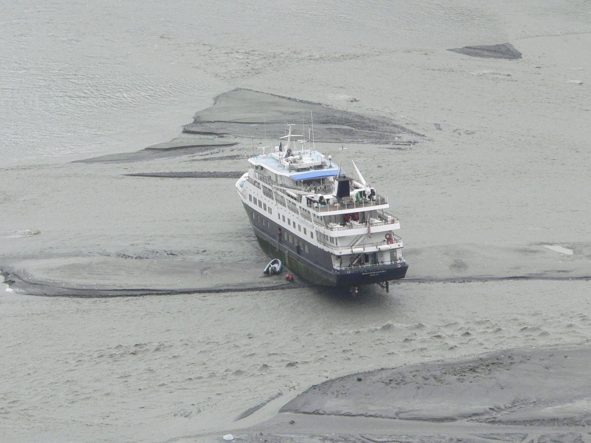 JUNEAU, Alaska -- The 178-foot Spirit of Glacier Bay was re-floated from a sand bar in Tarr Inlet at 4:23 p.m. today. Preliminary assessment of the vessel's propulsion system is operational. No pollution has been reported and boom has been prestaged on board the Spirit of Glacier Bay as a precautionary measure.